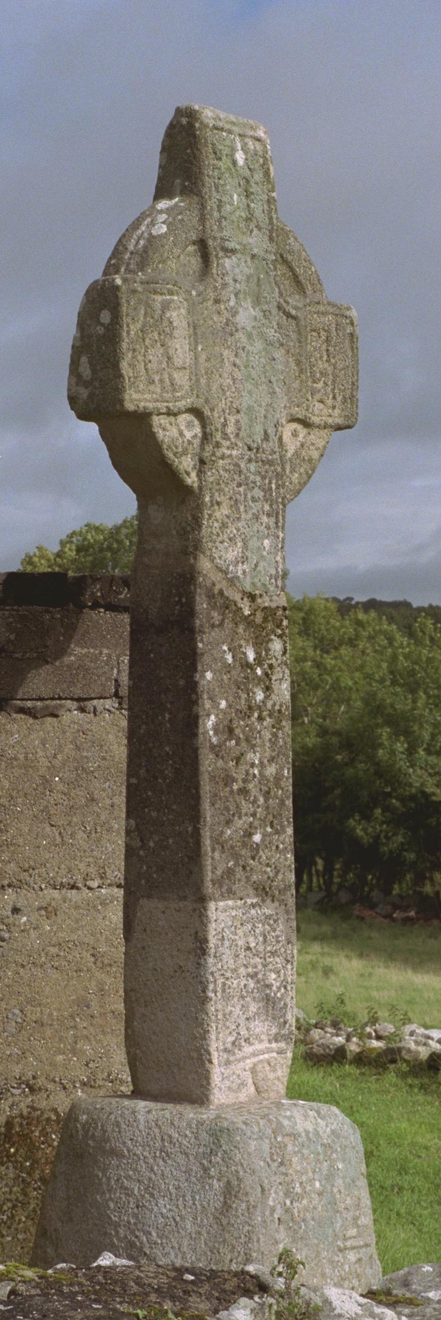 East face of high cross.